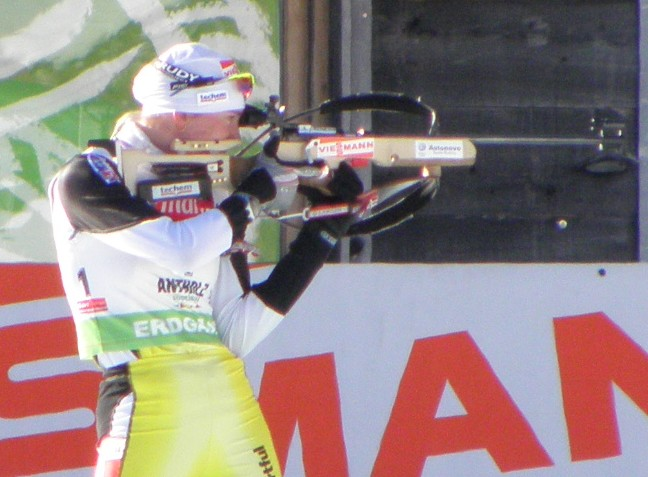 Anastasia Kuzmina in Antholz, 22-01-2010